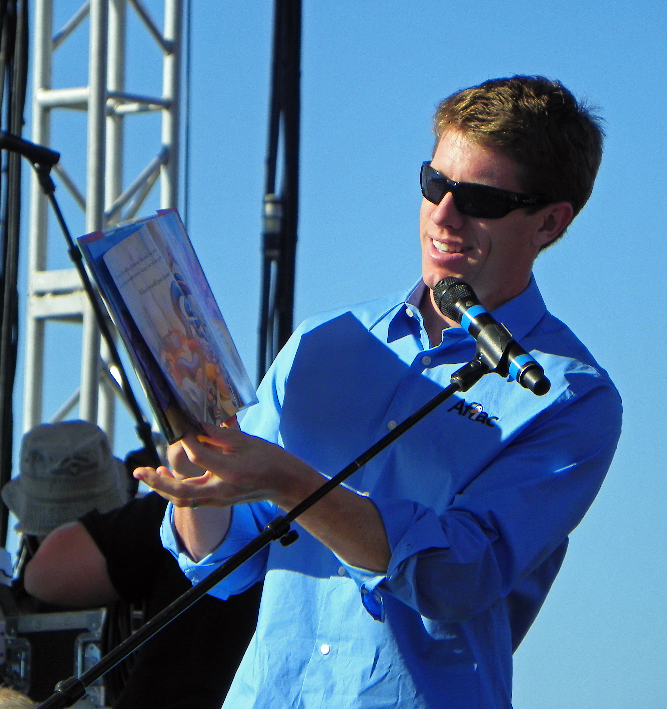 Carl Edwards reading to children prior to the Pepsi Max 400 at Auto Club Speedway.